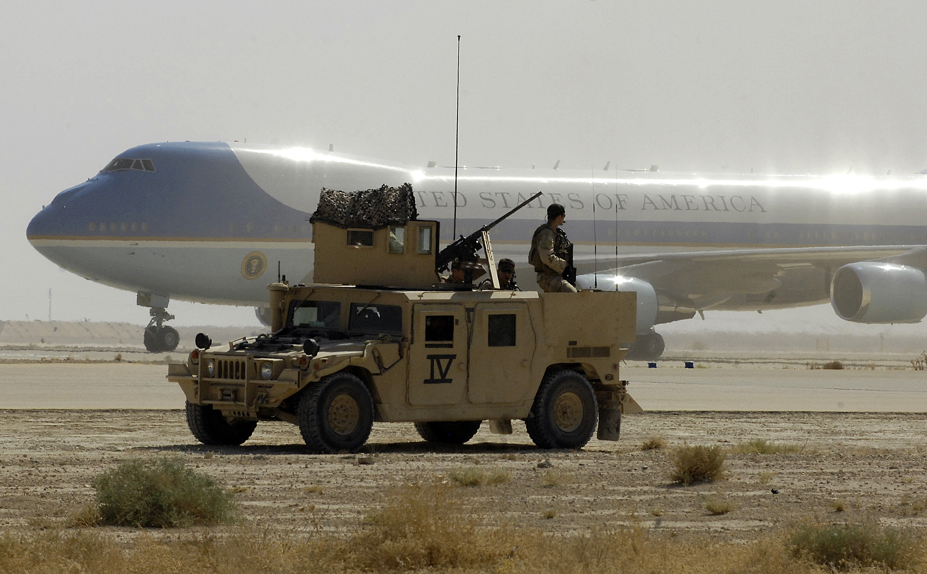 A U.S. Navy SEAL team helps secure the airfield of Al Asad Air Base, Iraq, Sept. 3, 2007, as Air Force One lands. President George W. Bush, Secretary of State Condoleezza Rice, Secretary of Defense Robert M. Gates and others met at Al Asad to meet speak with Iraqi government leadership, sheiks from the Al Anbar province and U.S. service members deployed to Iraq.